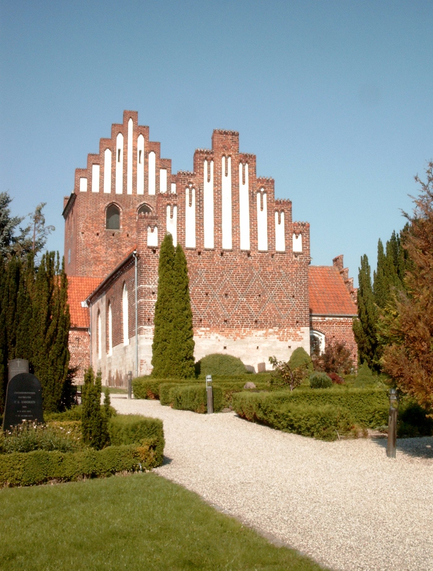 A view of Høje Taastrup Church from the east. Høje Taastrup, Denmark. Photographer: Dan Simon